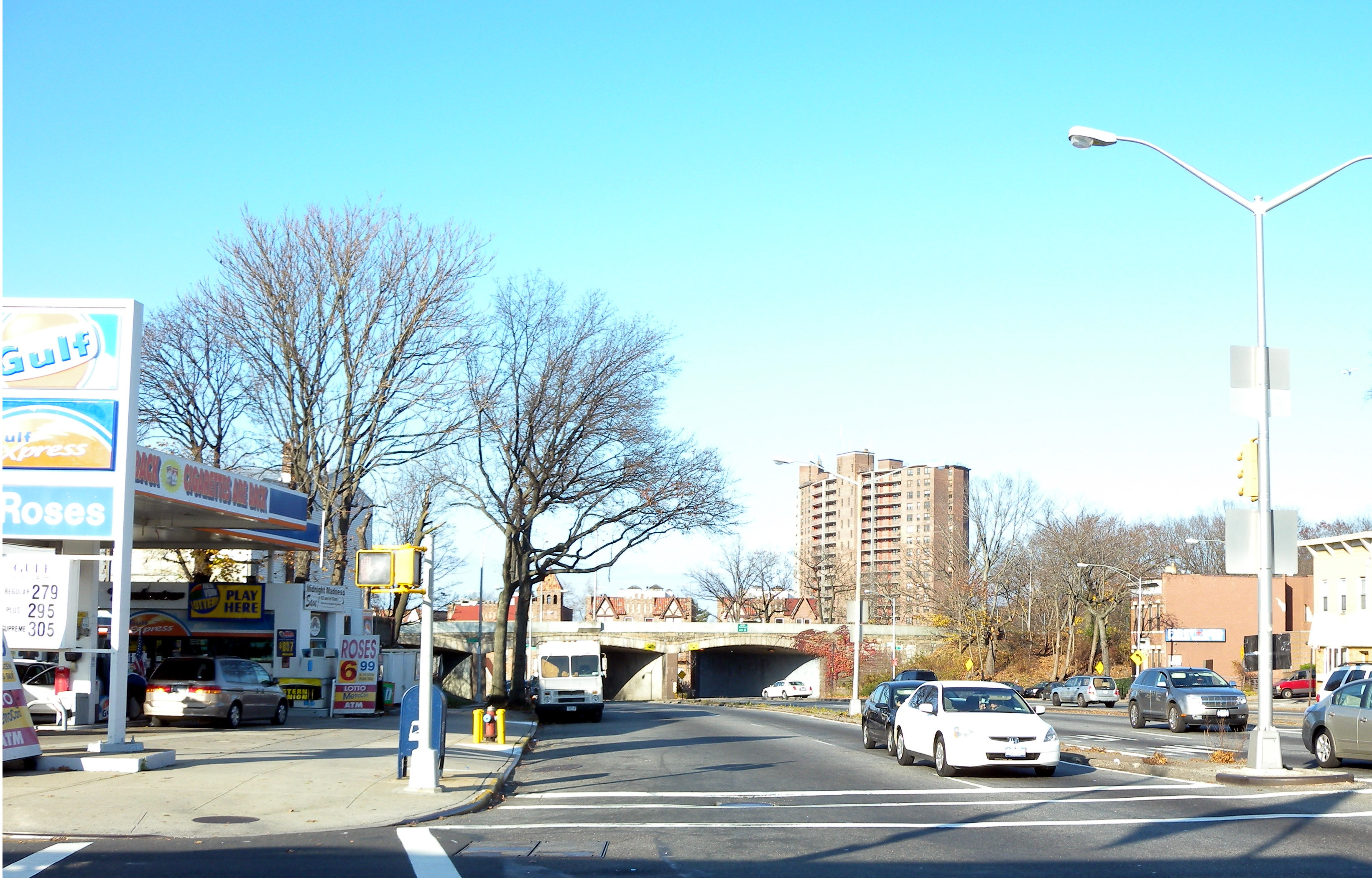 Looking north across Myrtle Avenue and along Woodhaven Boulevard towards Interboro Parkway overpass on a sunny afternoon.